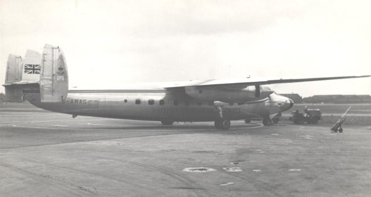 BEA Airspeed Ambassador G-AMAG "Sir Thomas Gresham" at Manchester Ringway